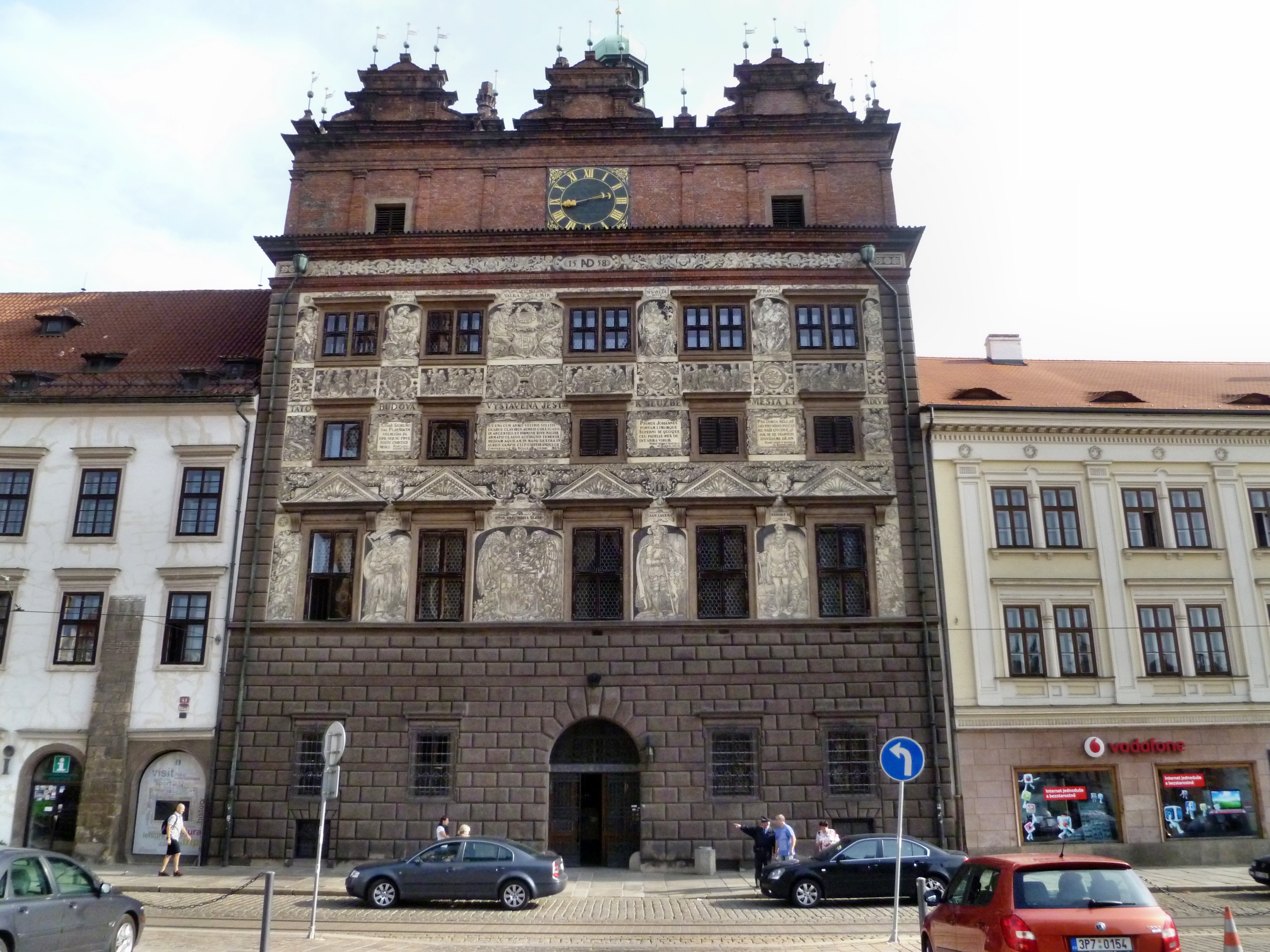 The renaissance town hall, built according to the plans of the Italian architect Giovanni de Statia (around 1554-1559); Plzeň, Czech Republic